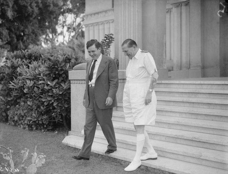 Mr Wendell Willkie in Alexandria. during His Middle East Tour Mr Wendell Willkie Met Admiral Sir Henry Harwood, General Maxwell and Pressmen. 6 September 1942. Mr Wendell Willkie and Admiral Sir Henry Harwood.